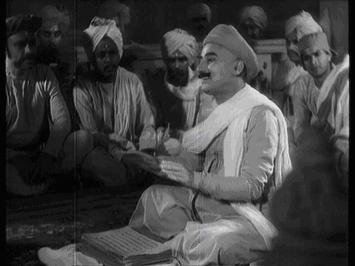 Scene from the 1935 Marathi film Dharmatma